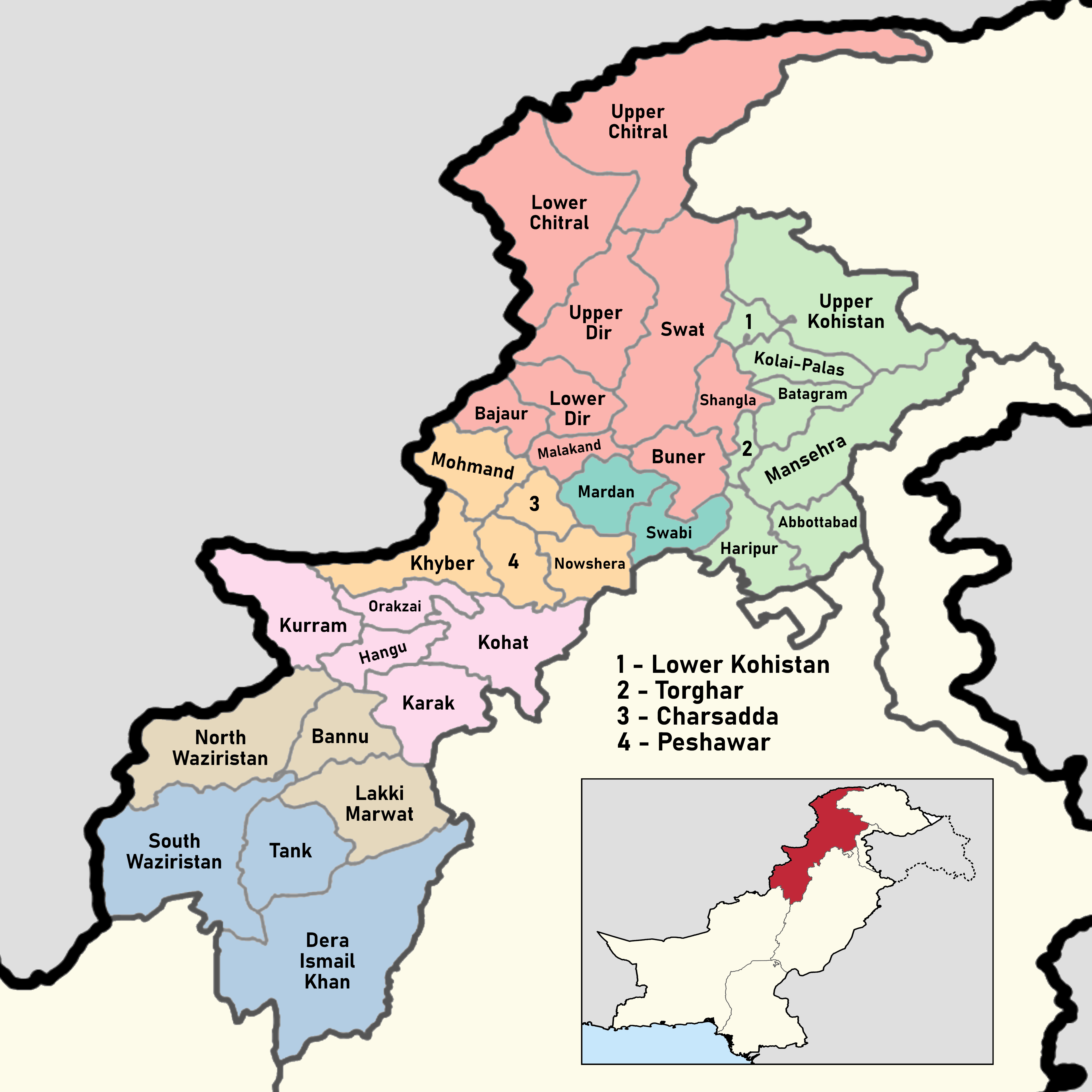 This is a map showing each and every district of Khyber Pakhtunkhwa along with the district's name. The map is accurate as of June 15, 2020 and has been made using data from the Pakistan Bureau of Statistics and UN OCHA's HumData Database (which citypopulation.de uses). Each color depicts a different administrative division (higher than a district but lower than a province). A map of the districts of Khyber Pakhtunkhwa without any names can be found here.